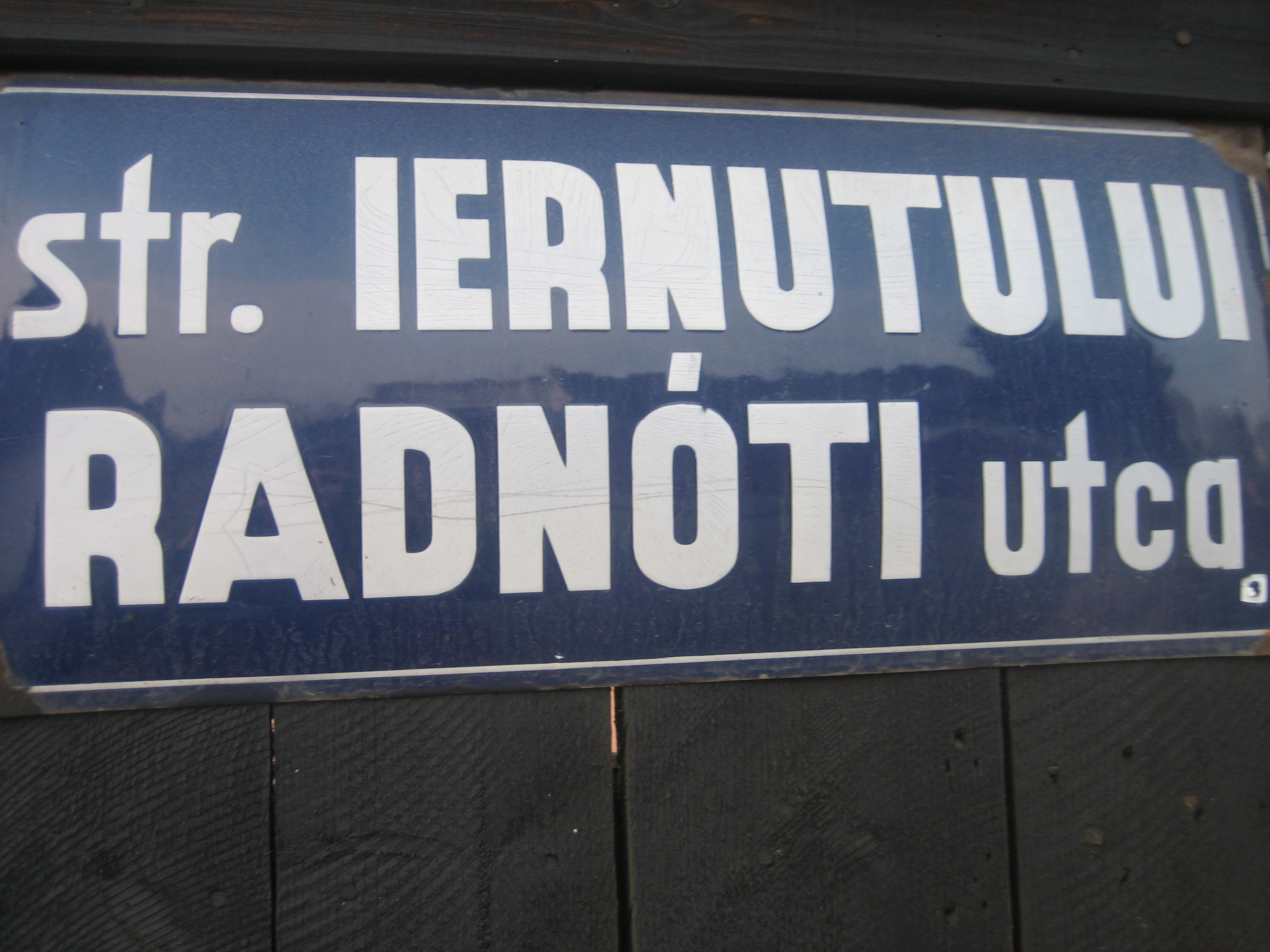 Street sign in Târgu Mureş